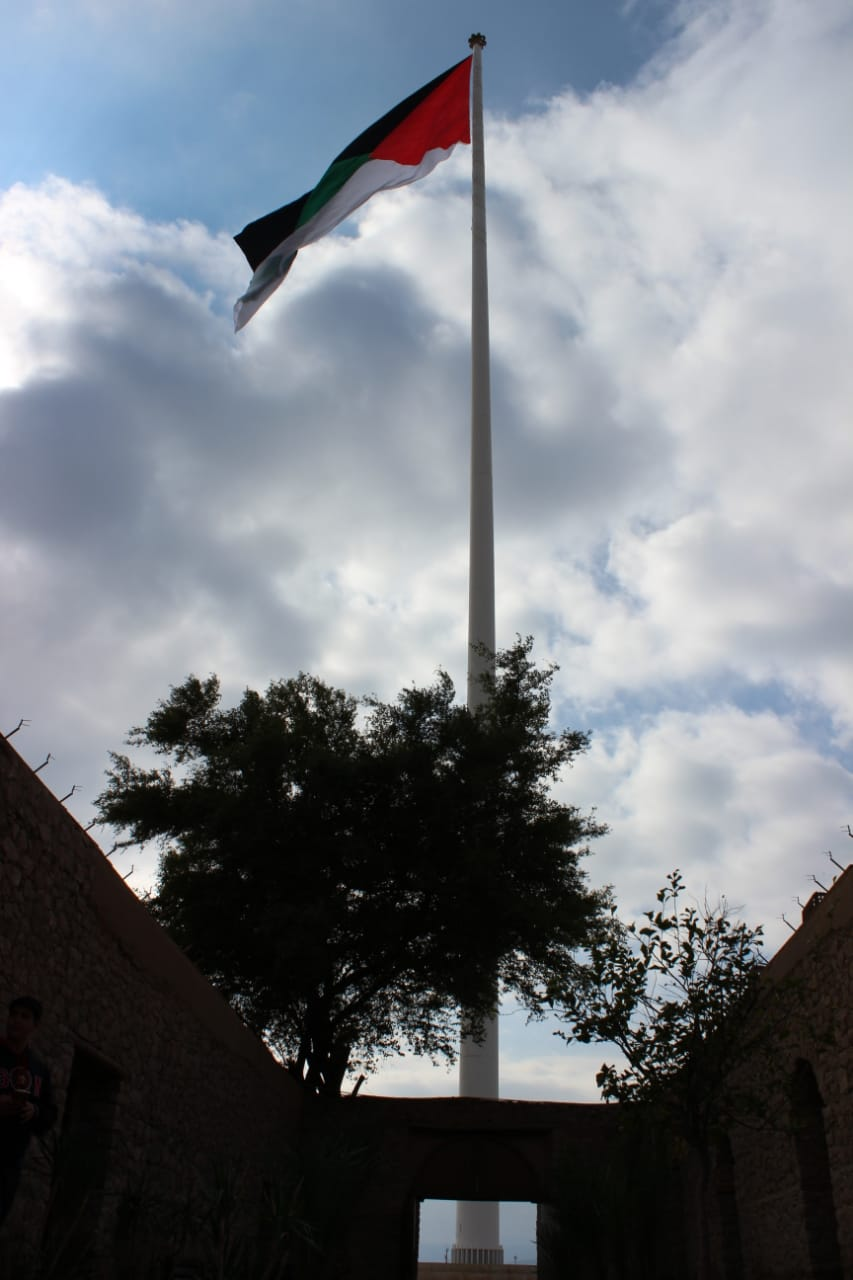 Flag of the Great Arab Revolution